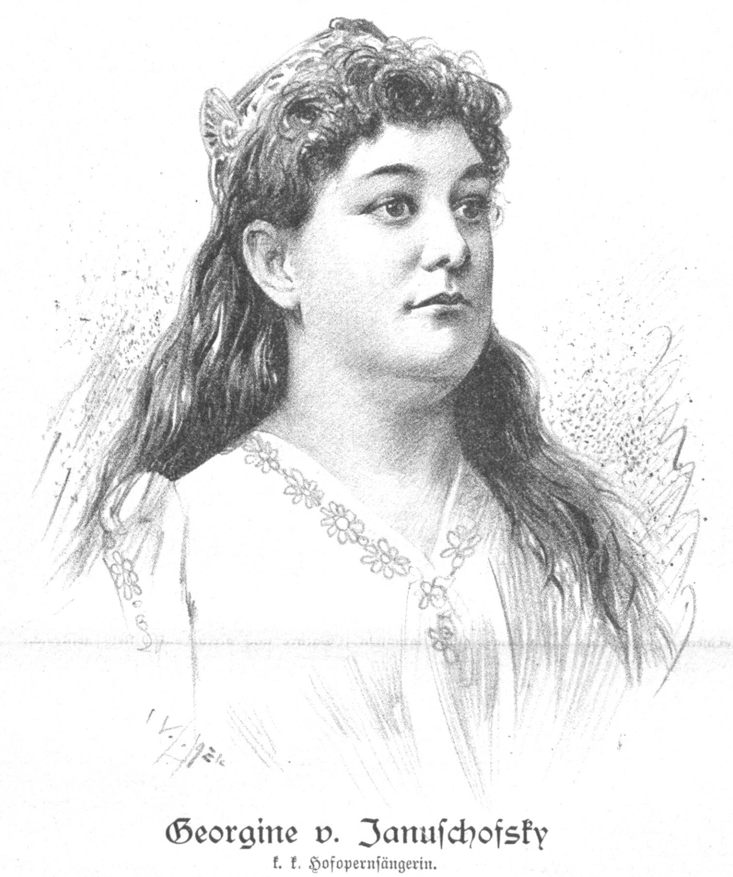 Portrait of Georgine von Januschofsky (ca1859-1914), Austrian actress and singer.